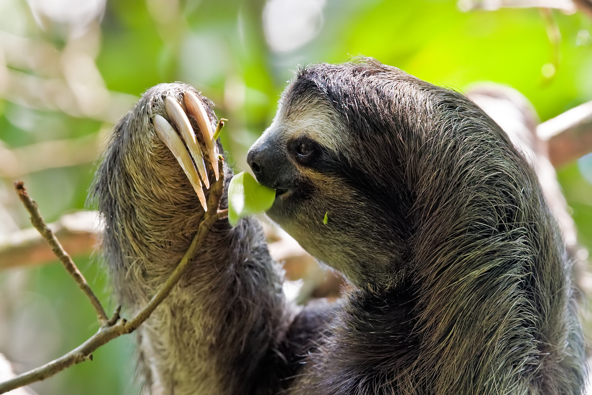 Three-toed-sloth, picture taken in the Cahuita National Park in the southeast of Costa Rica